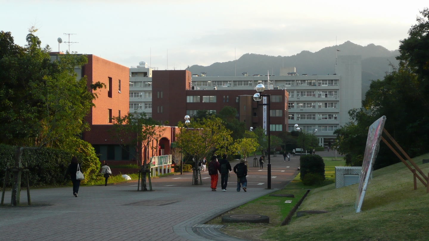 University of Miyazaki - Main Street.